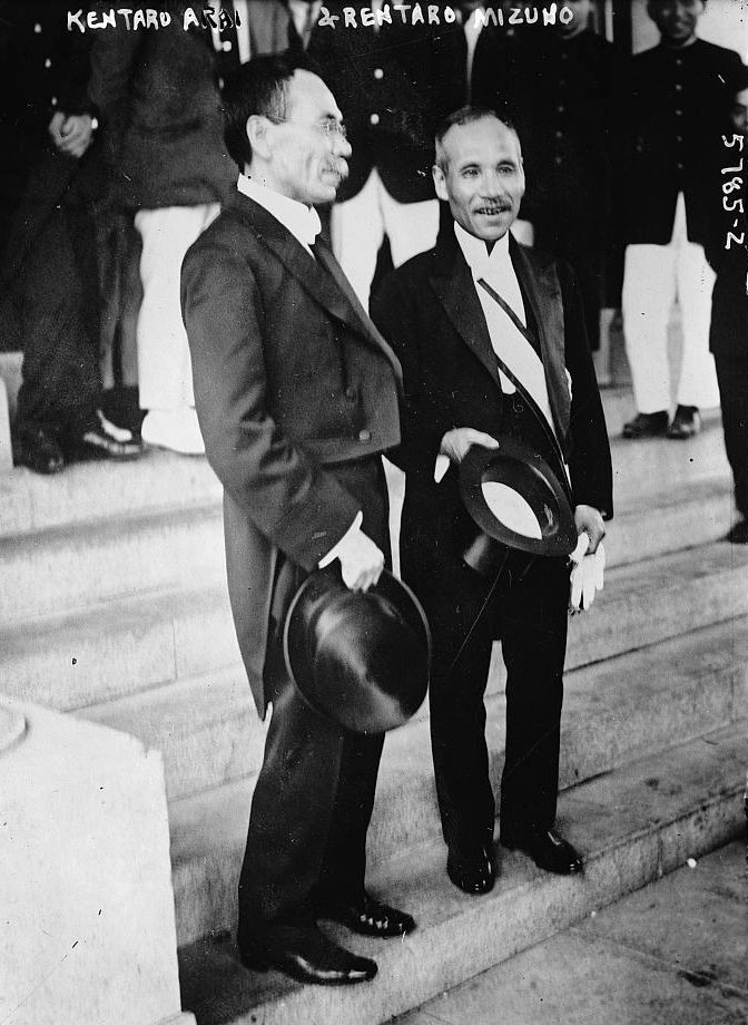 Kentaro Arai (on the left, 荒井賢太郎) and Rentaro Mizuno (水野錬太郎).